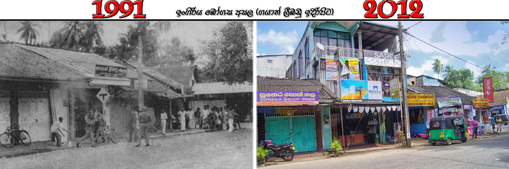 Ingiriya History01